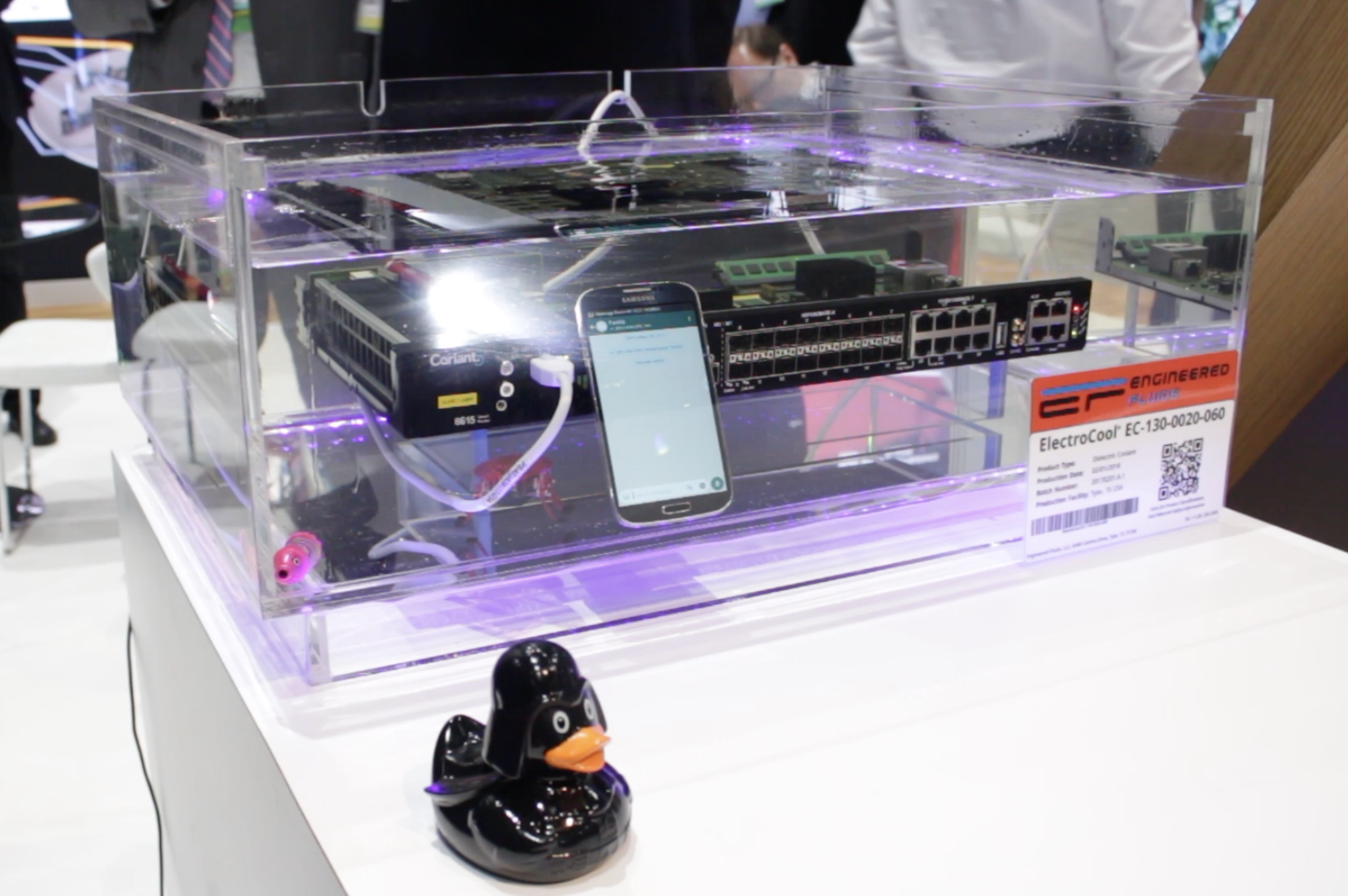 Network Device immersed in synthetic single-phase, Liquid Coolant